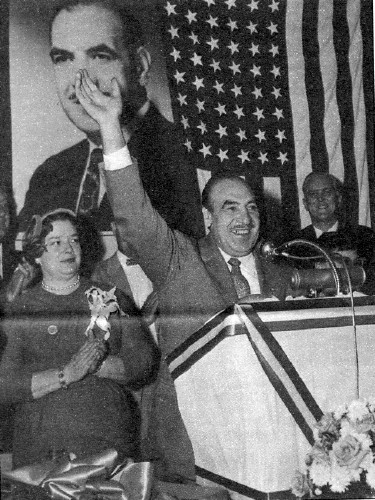 Anthony Joseph Celebrezze (1910-1998)